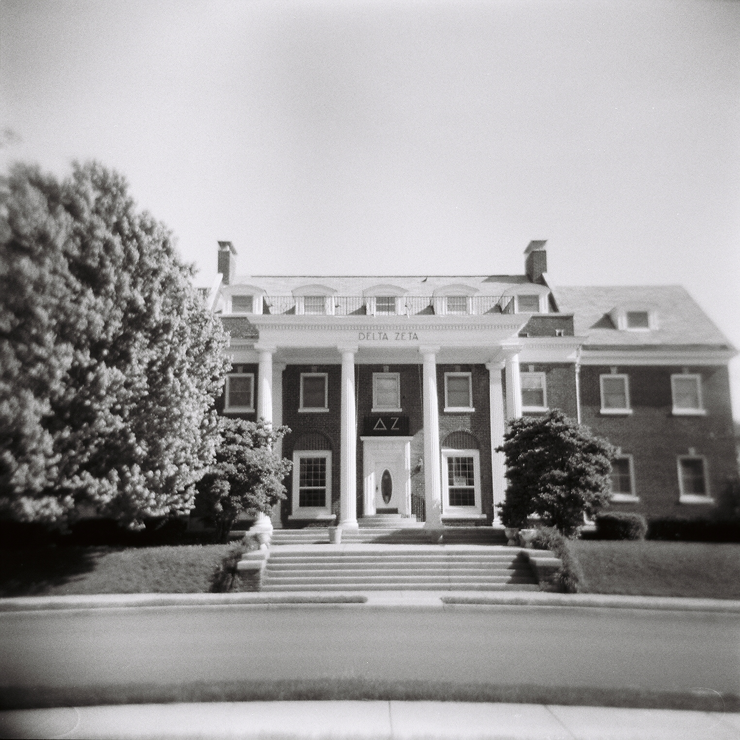 The Delta Zeta sorority house on the DePauw University campus in Greencastle, Indiana, United States.